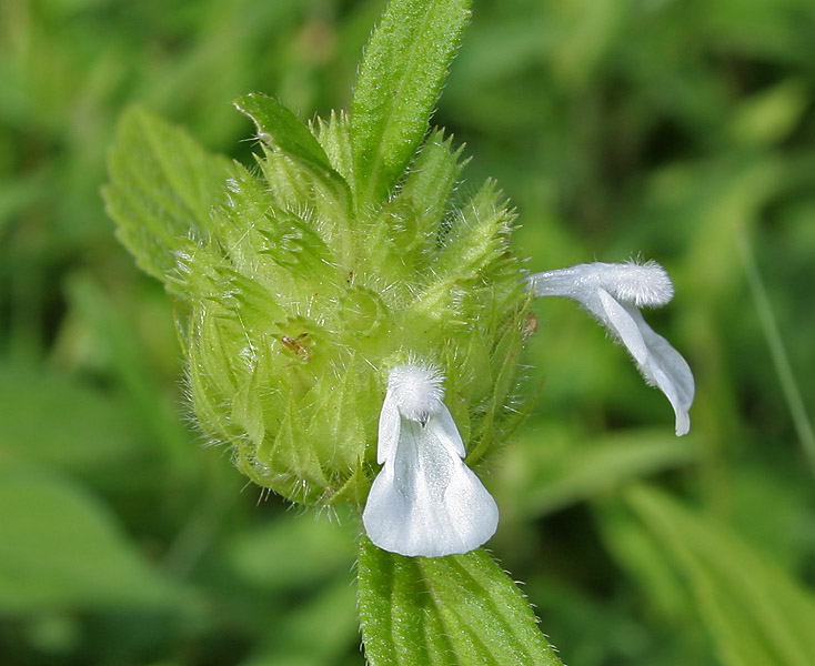 Pansi-pansi Leucas aspera in Hyderabad , India.